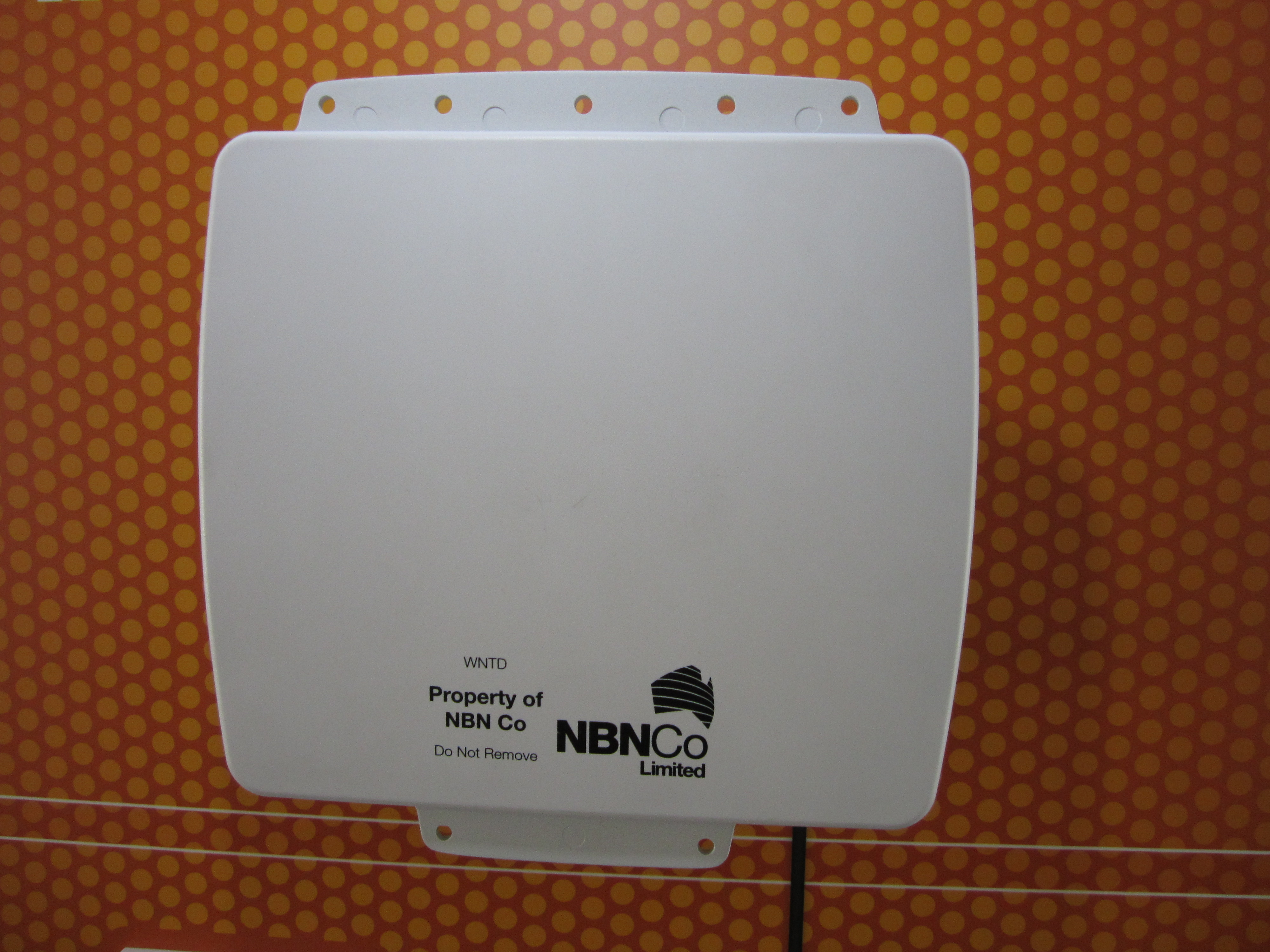 NBN Co Wireless Network Termination Device (WNTD), Outdoor Antenna, located in the NBN Co Discovery Truck.